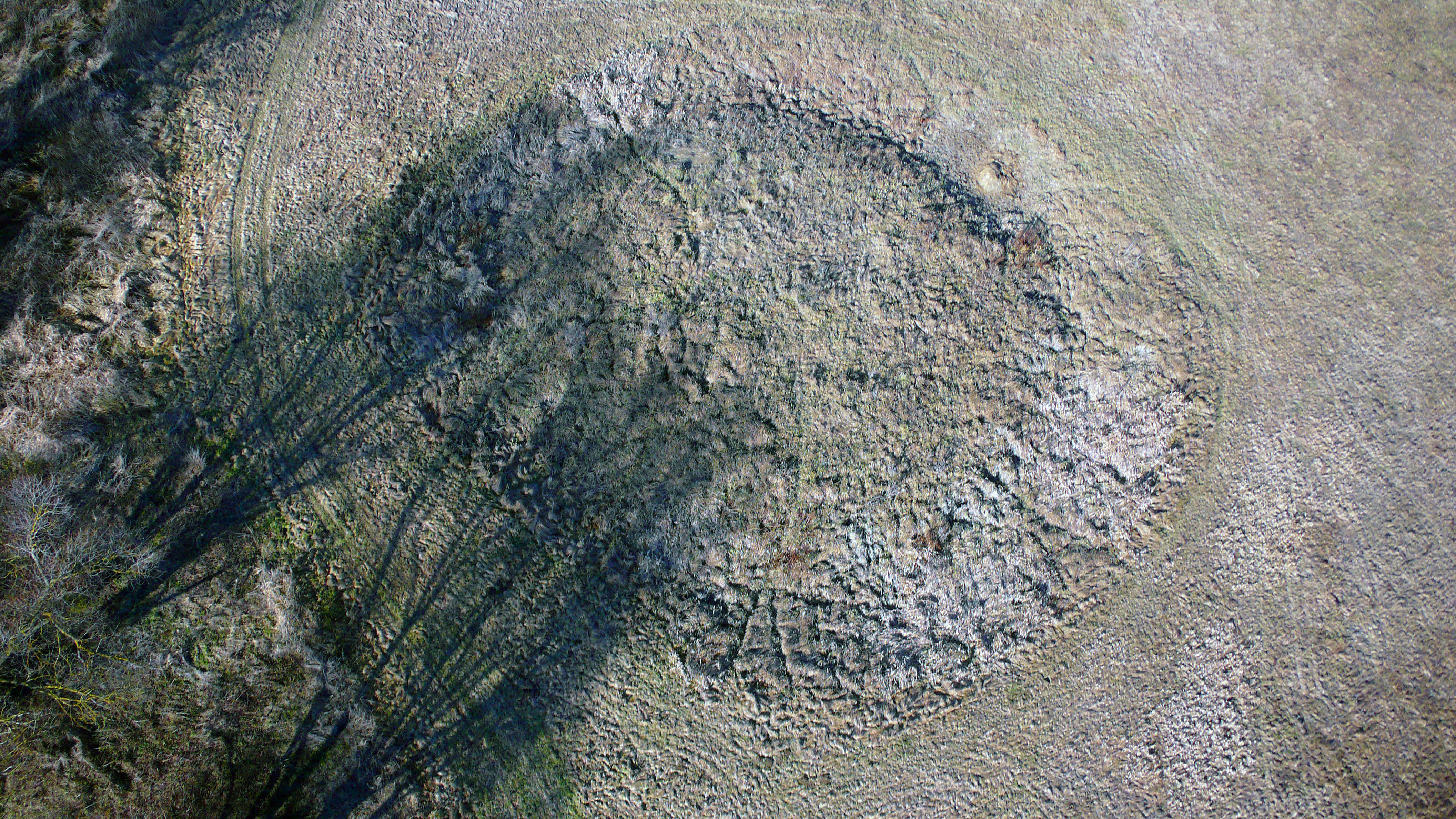 Sorkifalud_Zalak, Hungary, aerial photography